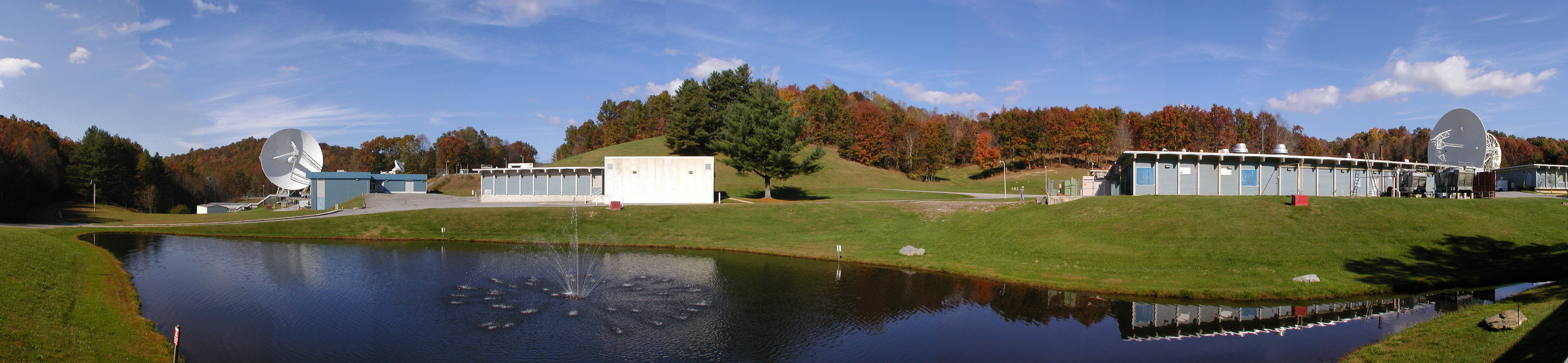 Pisgah Astronomical Research Institute (PARI)